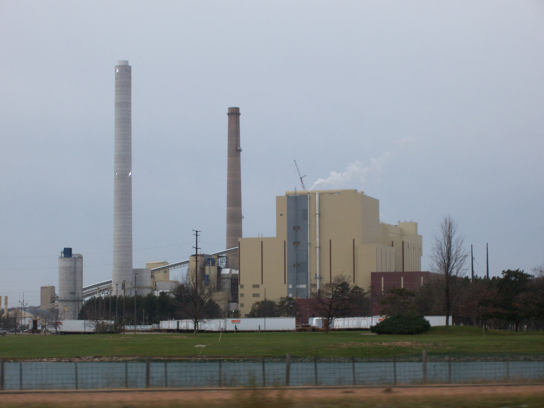 The Weston Generating Station in Weston, Wisconsin, USA taken from U.S. Route 51/Interstate 39.